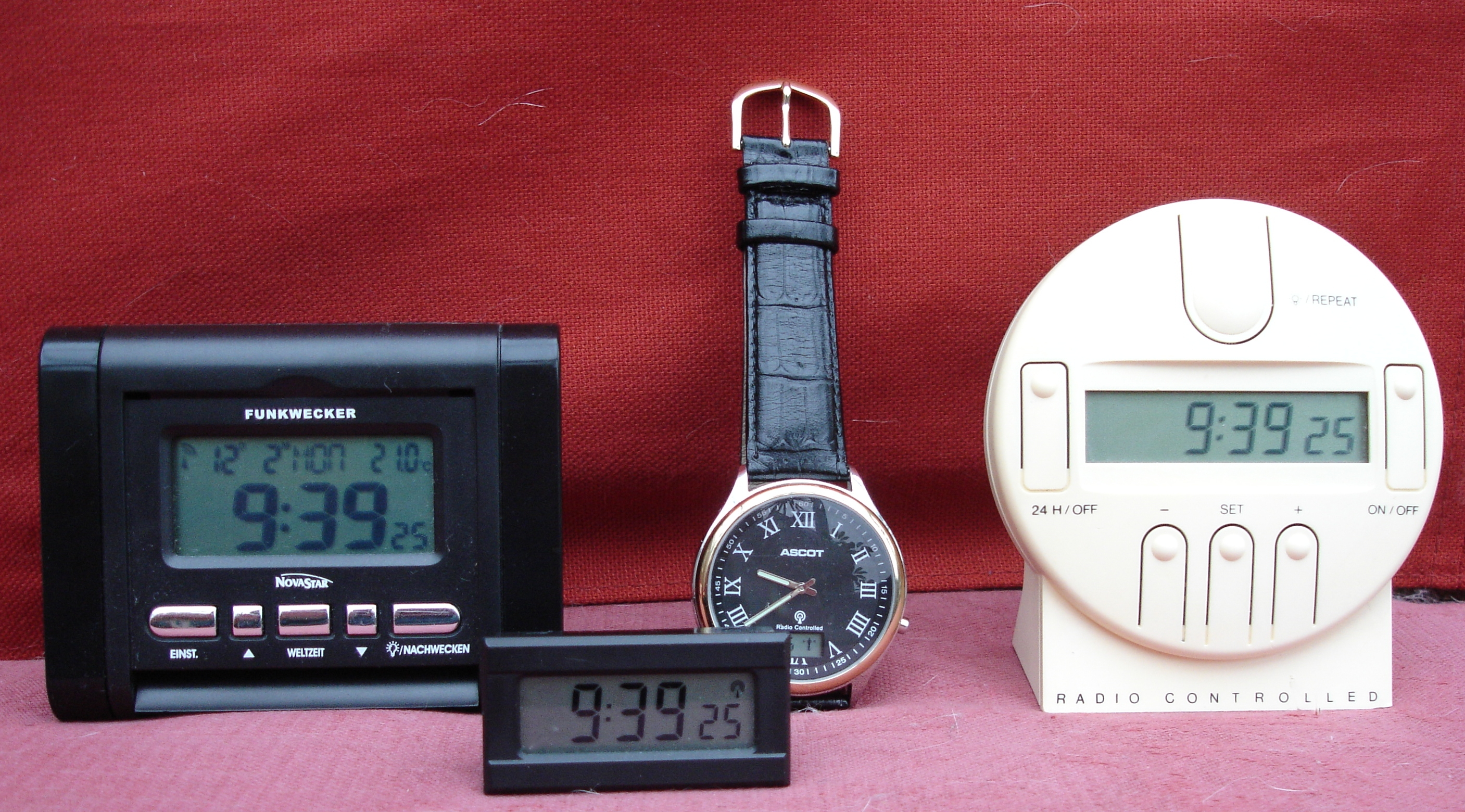 Description DCF-klokken Date12 feb 2007 (9:39 uur)SourceOwn workAuthorHandige HarryPermission (Reusing this file) PD DCF-klokken